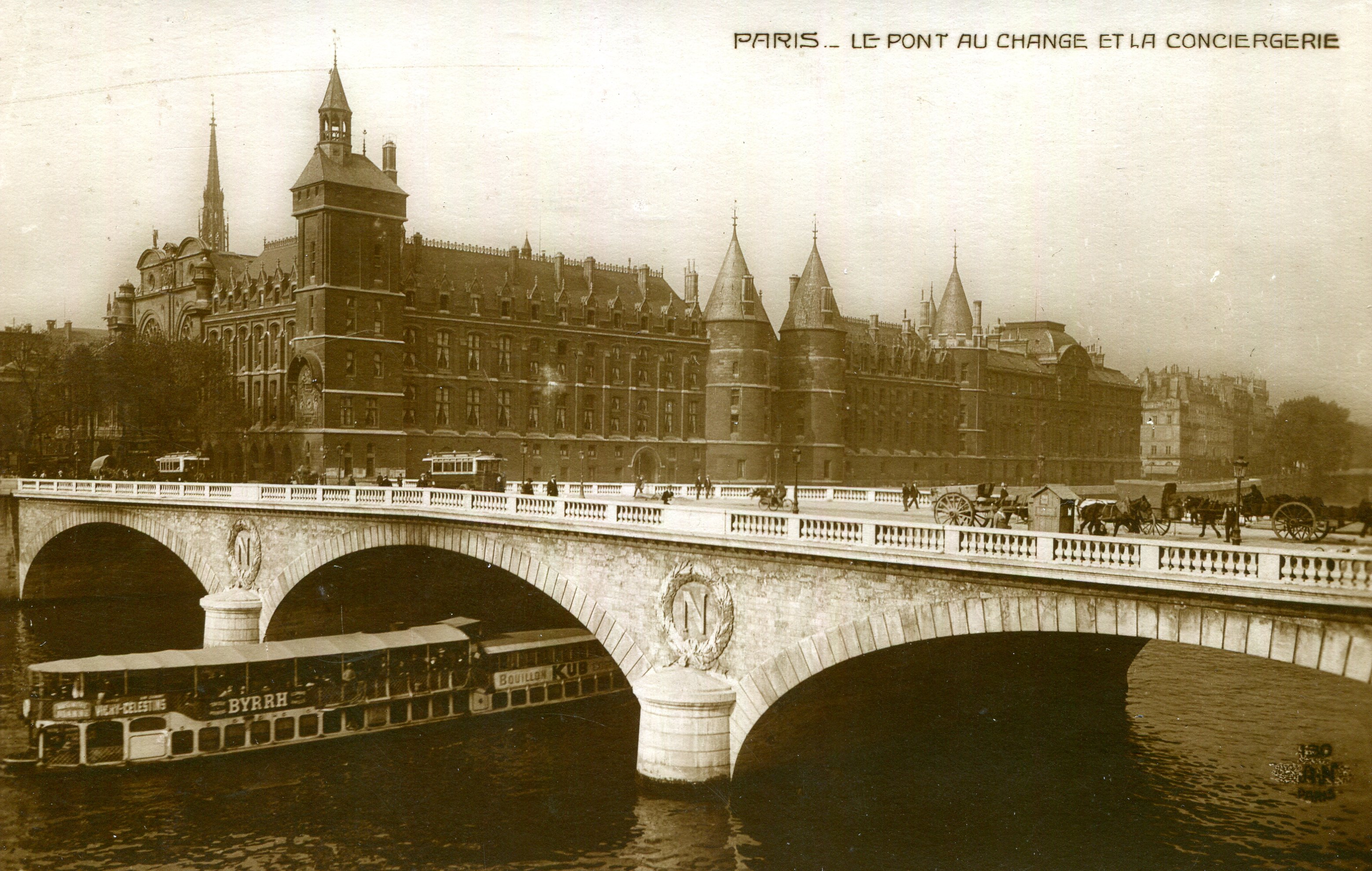 Pont au Change with a view of the Conciergerie prison in the background